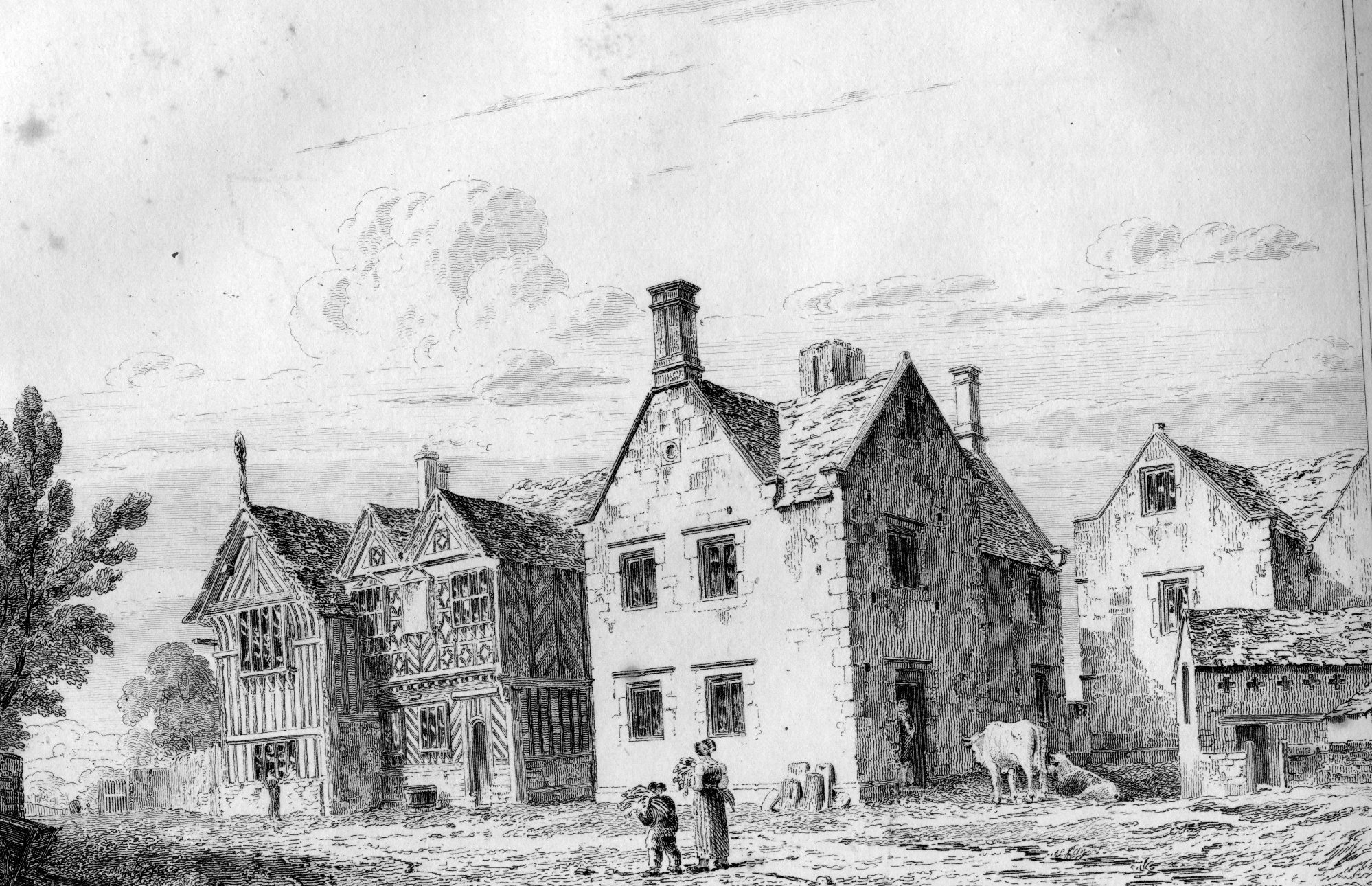 Carbrook Hall as it appeared c1819.